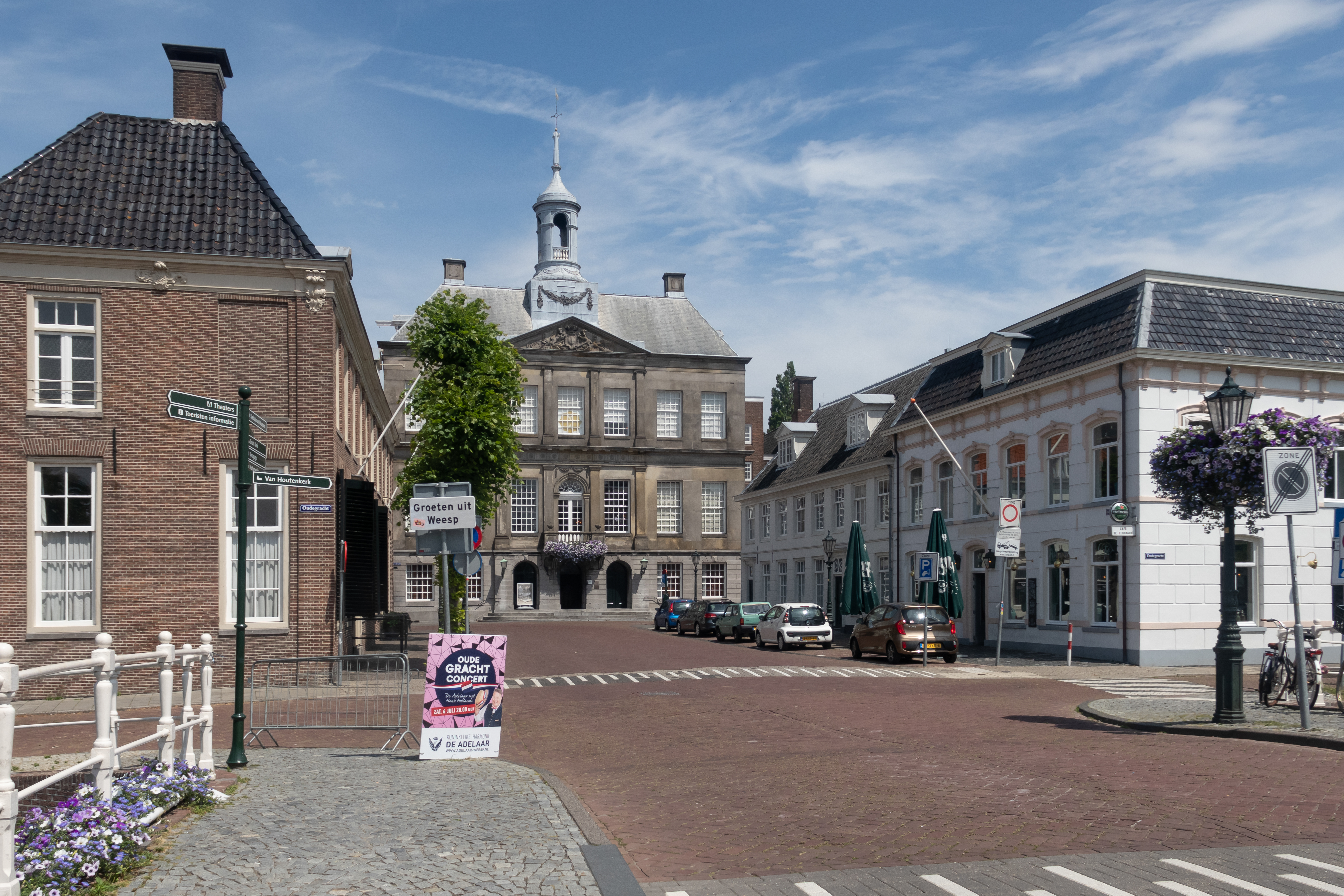 Weesp, former townhall (nowadays a museum)